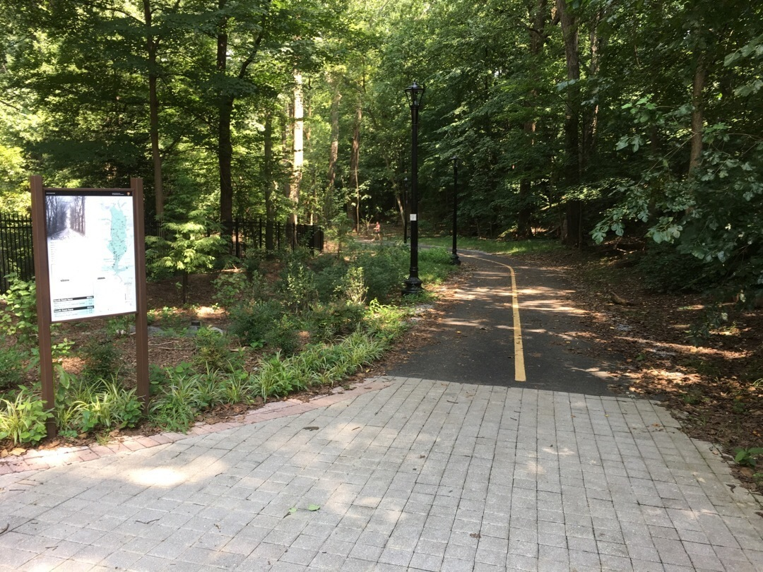 A paved bicycle path leads into a forested area Klingle Valley Trail Top Keywords: nps; national park service; rocr; rock creek park; dc; district of columbia; washington; kringle valley trail top